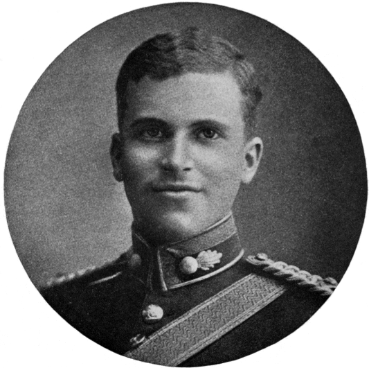 Picture of Donald Hankey in uniform. Published 1917 BY E.P. DUTTON & CO. and available online at Project Gutenberg. [1]